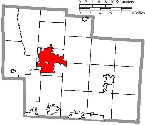 Map of the municipal and township boundaries of Delaware County, Ohio, United States, as of the 2000 census, with the location of the city of Delaware highlighted. Township borders are shown only in unincorporated areas in order to differentiate incorporated and unincorporated areas more clearly.